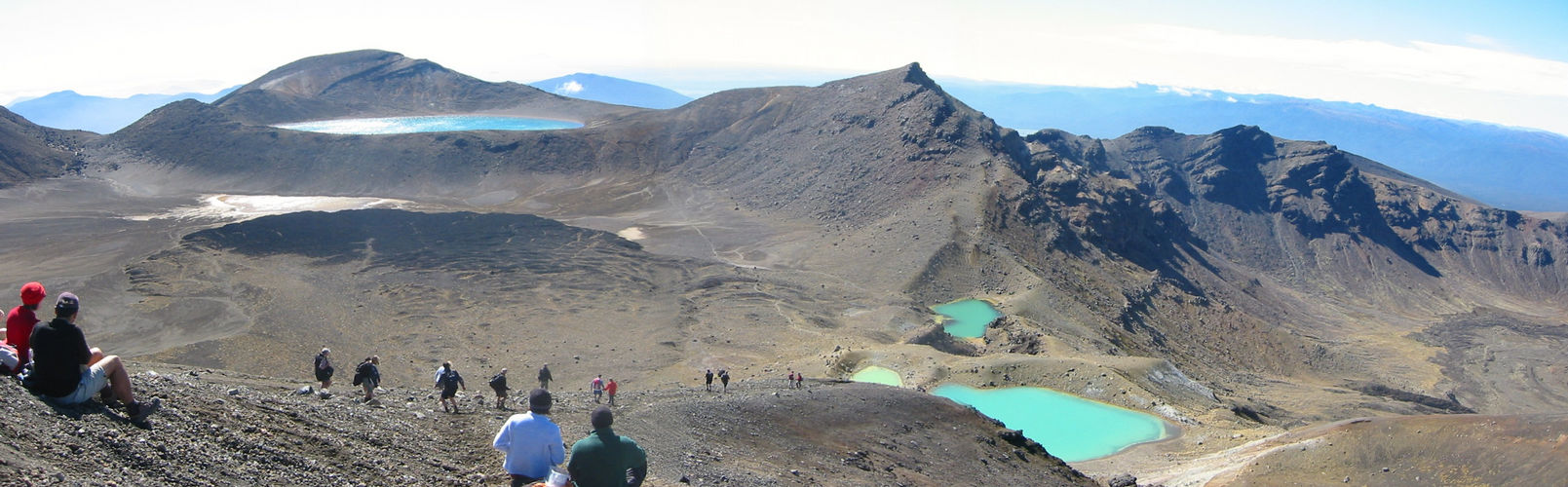 The most famous part the Tongariro Crossing with the Emerald Lakes and the Blue Lake, typically crowded on a beautiful day. It belongs to the Great Walk Tongariro Northern Circuit.